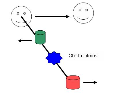 Motion parallax.